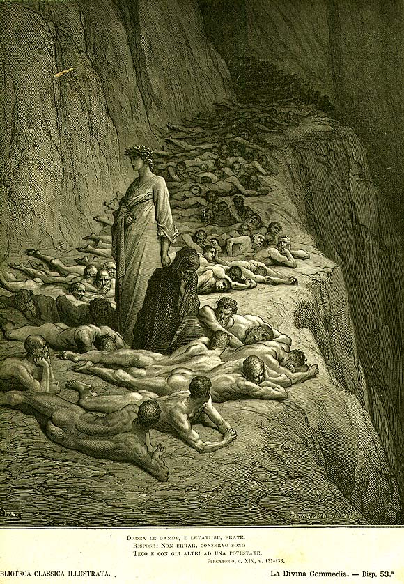 Illustration #19.97 "The Avaricious and Prodigal" from an edition of Dante's Purgatorio published by Gustave Doré (published in a single volume with Paradiso in 1868)